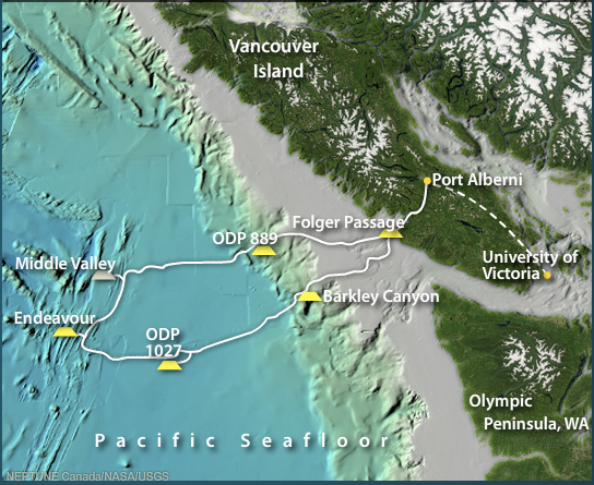 This is an overview map, which shows the node locations in the NEPTUNE Canada ocean observatory in the Northeast Pacific Ocean. Original title: "NEPTUNE Canada network west of Vancouver Island, British Columbia"